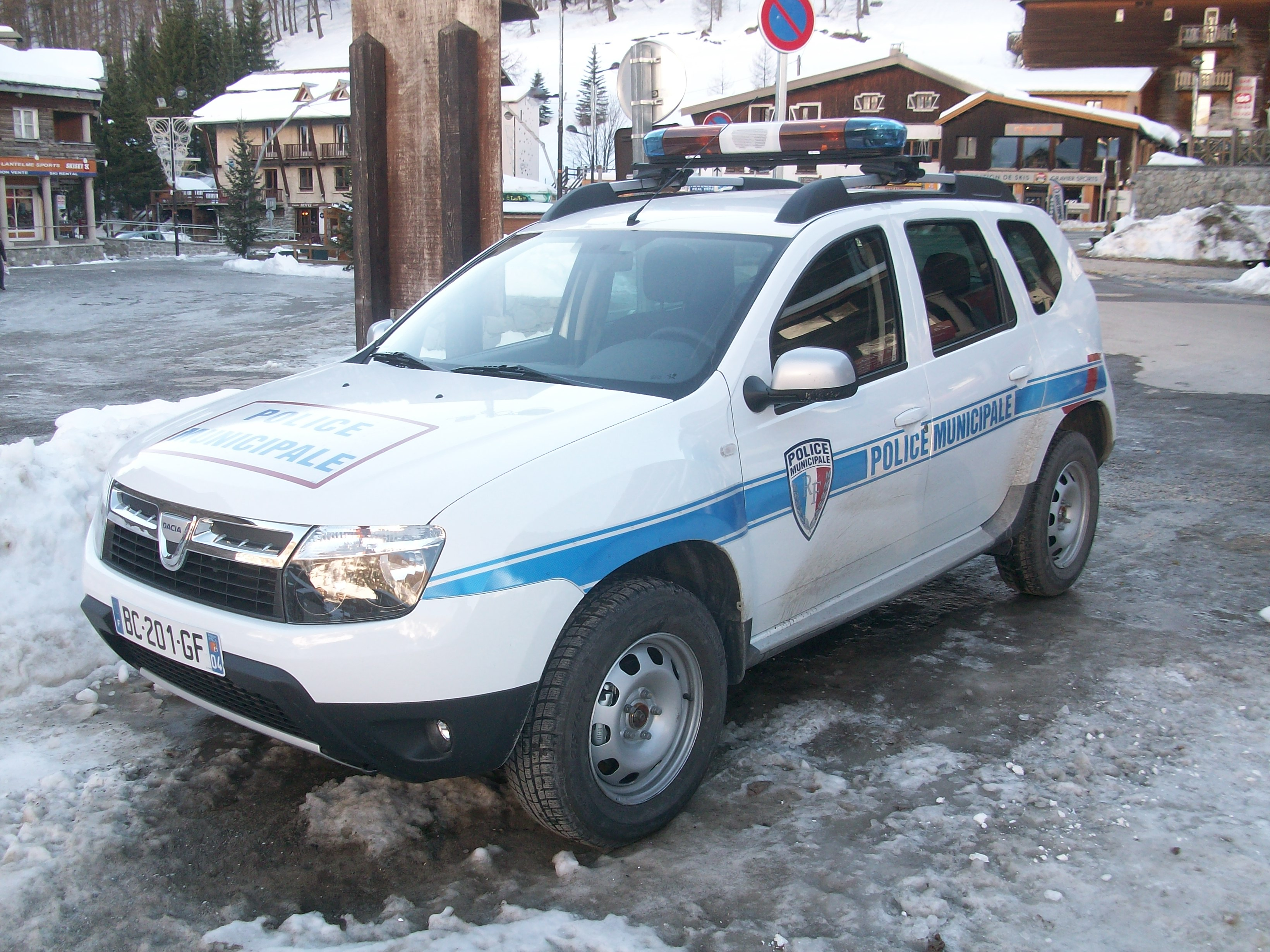 Dacia duster from the Municipal Police of "Allos" in France